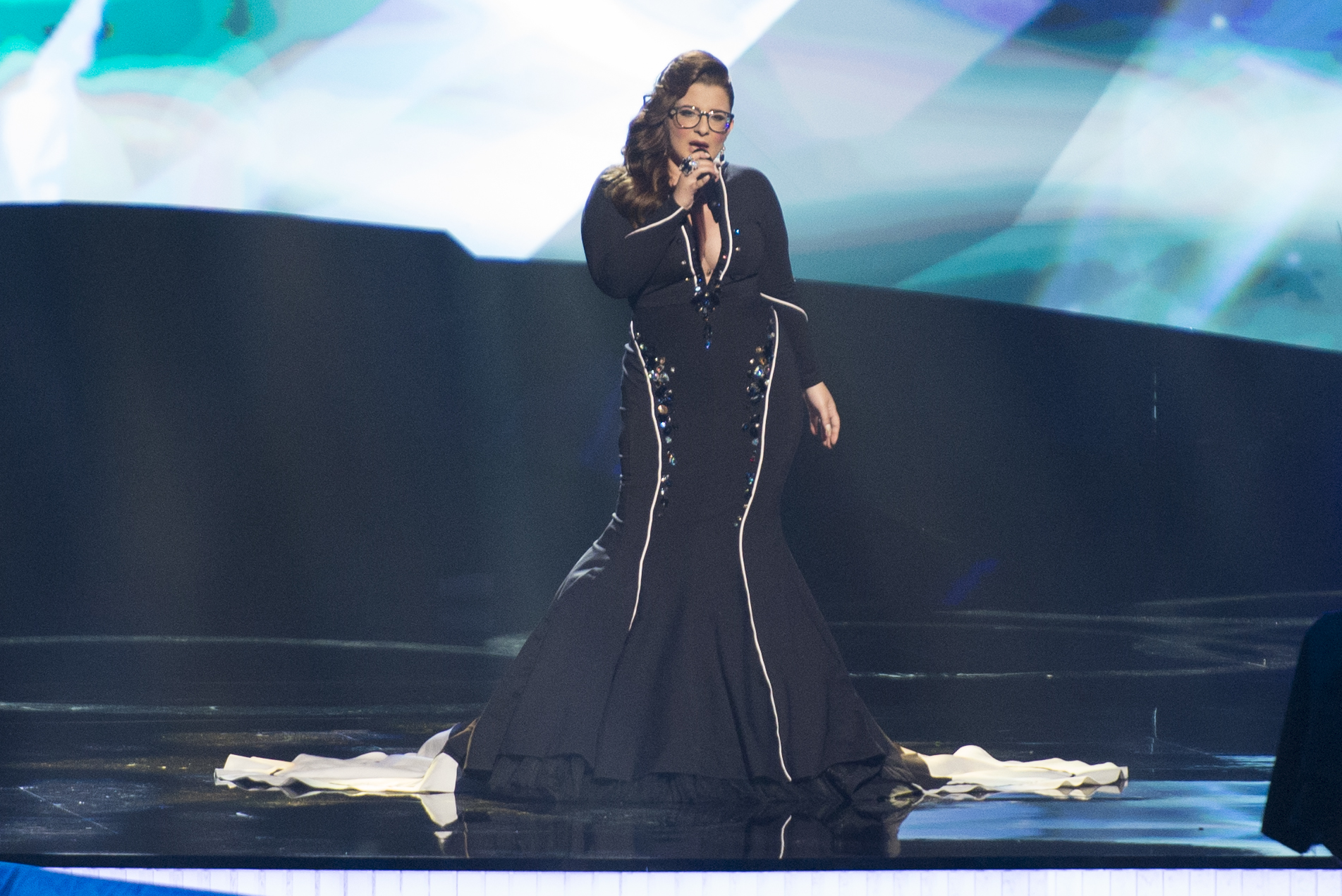 Moran Mazor representing Israel with the song "Rak Bishvilo" (רק בשבילו) during the second dress rehearsal of the second semi final of the Eurovision Song Contest 2013 in Malmö. (Help translate this text)